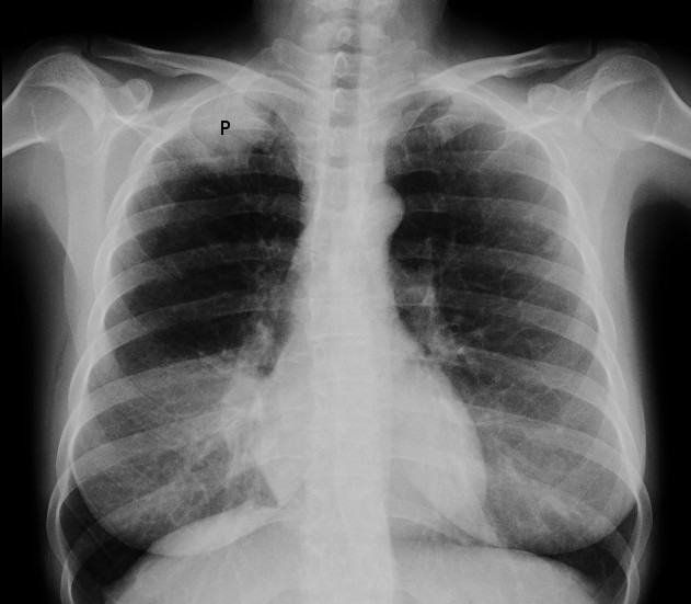 Chest radiograph showing a Pancoast tumor (labeled as P, non-small cell lung carcinoma, right lung), from smoker woman of 47 years old.